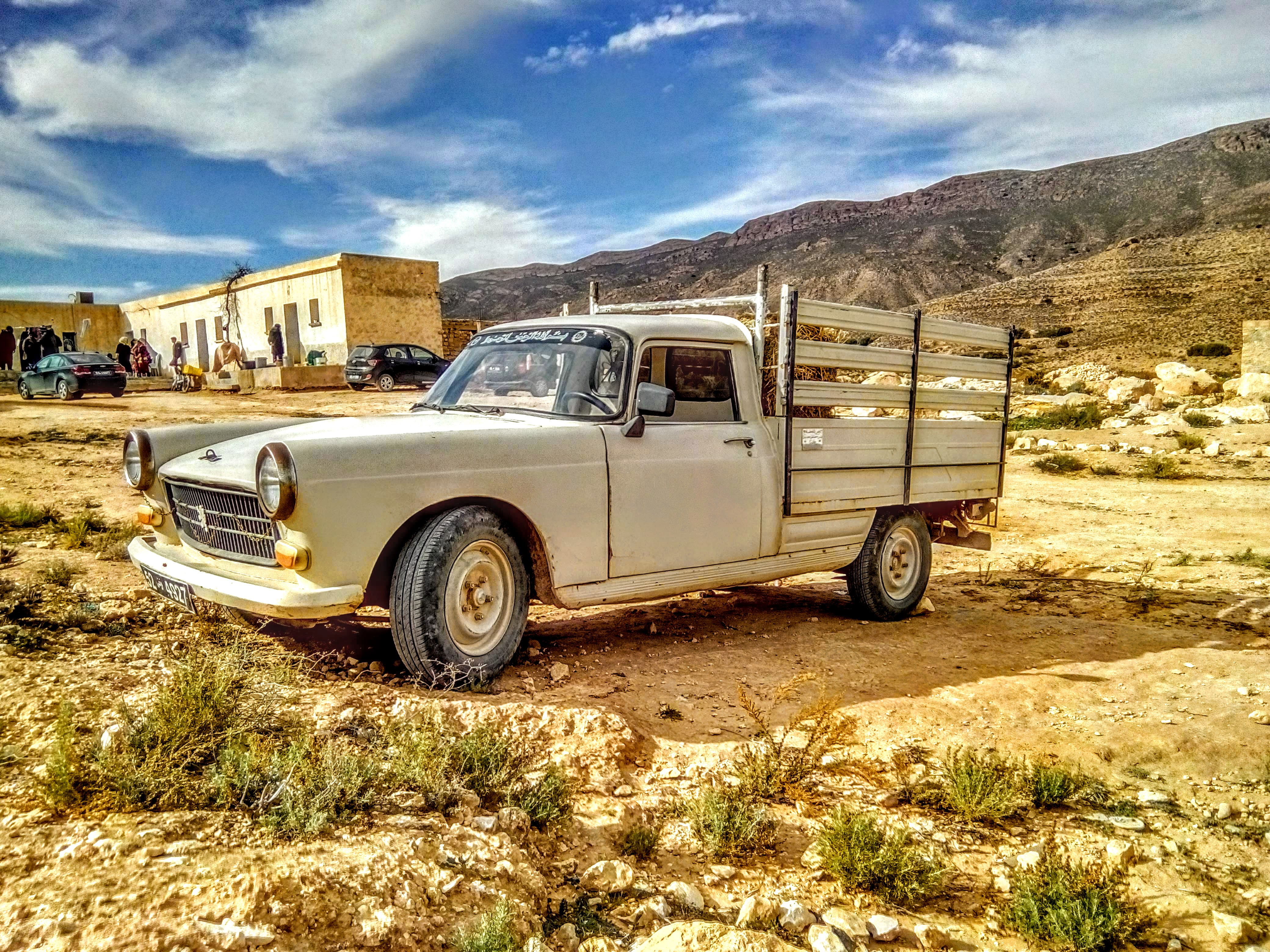 This is an image with the theme "Africa on the Move or Transport" from: Tunisia